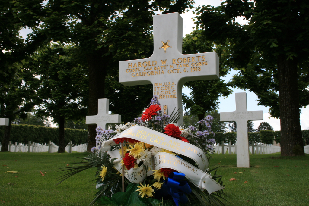 Harold Roberts, Meuse, Lorraine, France. Headstone at Meuse-Argonne American National Cemetary